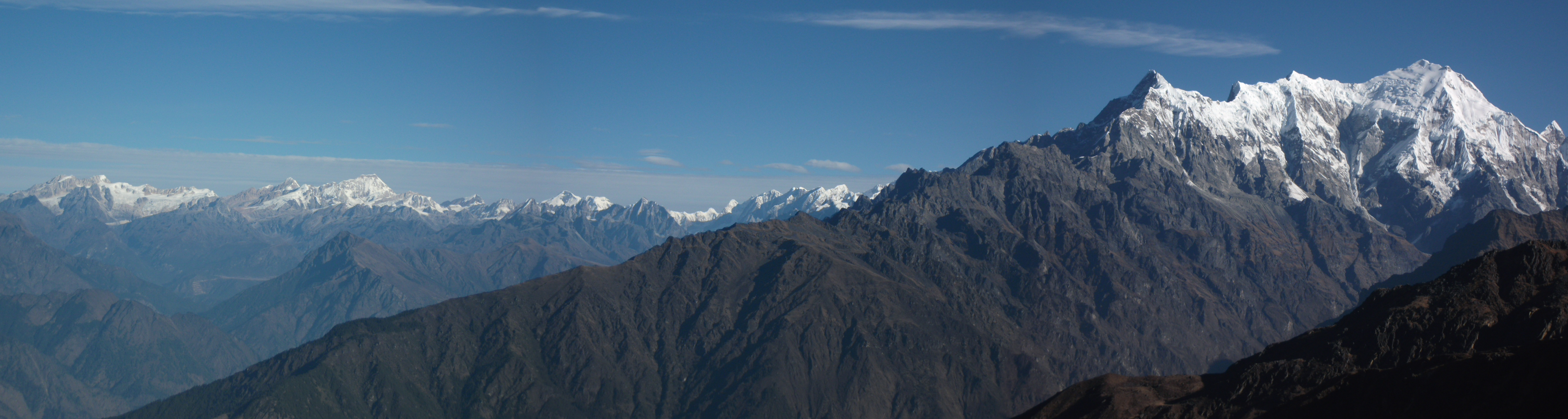 Langtang